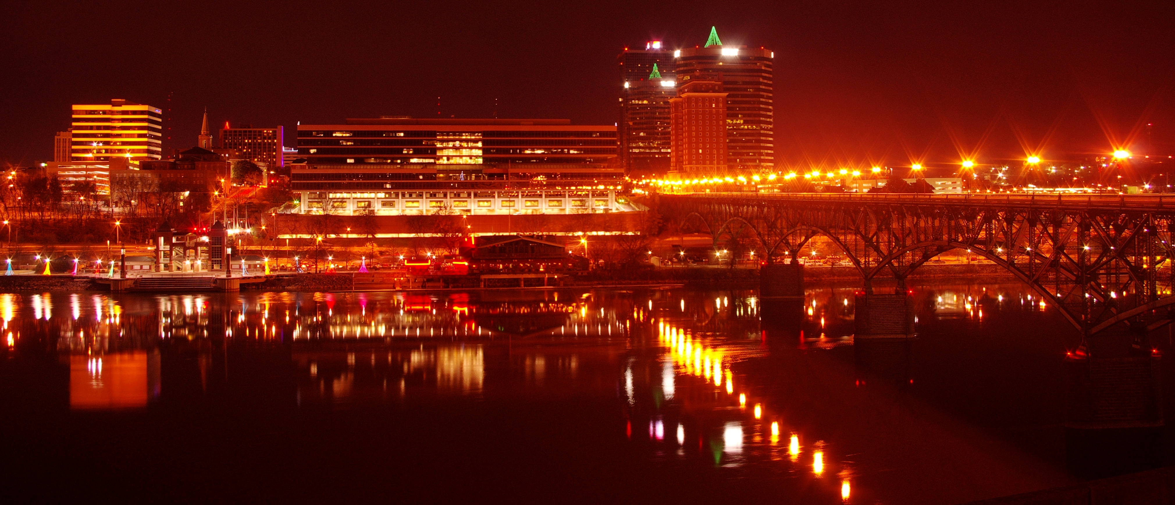 Knoxville, Tennessee, USA, viewed from the old Baptist Hospital building. The Tennessee River is in the foreground, with the Gay Street Bridge on the right. The City-County Building is across the river at the center. The Plaza and Riverview towers and the Andrew Johnson Building are visible on the right.